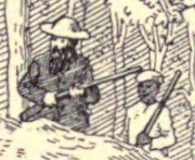 Self portraot, Douglas Hamilton and bearer cropped from Douglas_Hamilton,_I_didn't_do_it_Ma